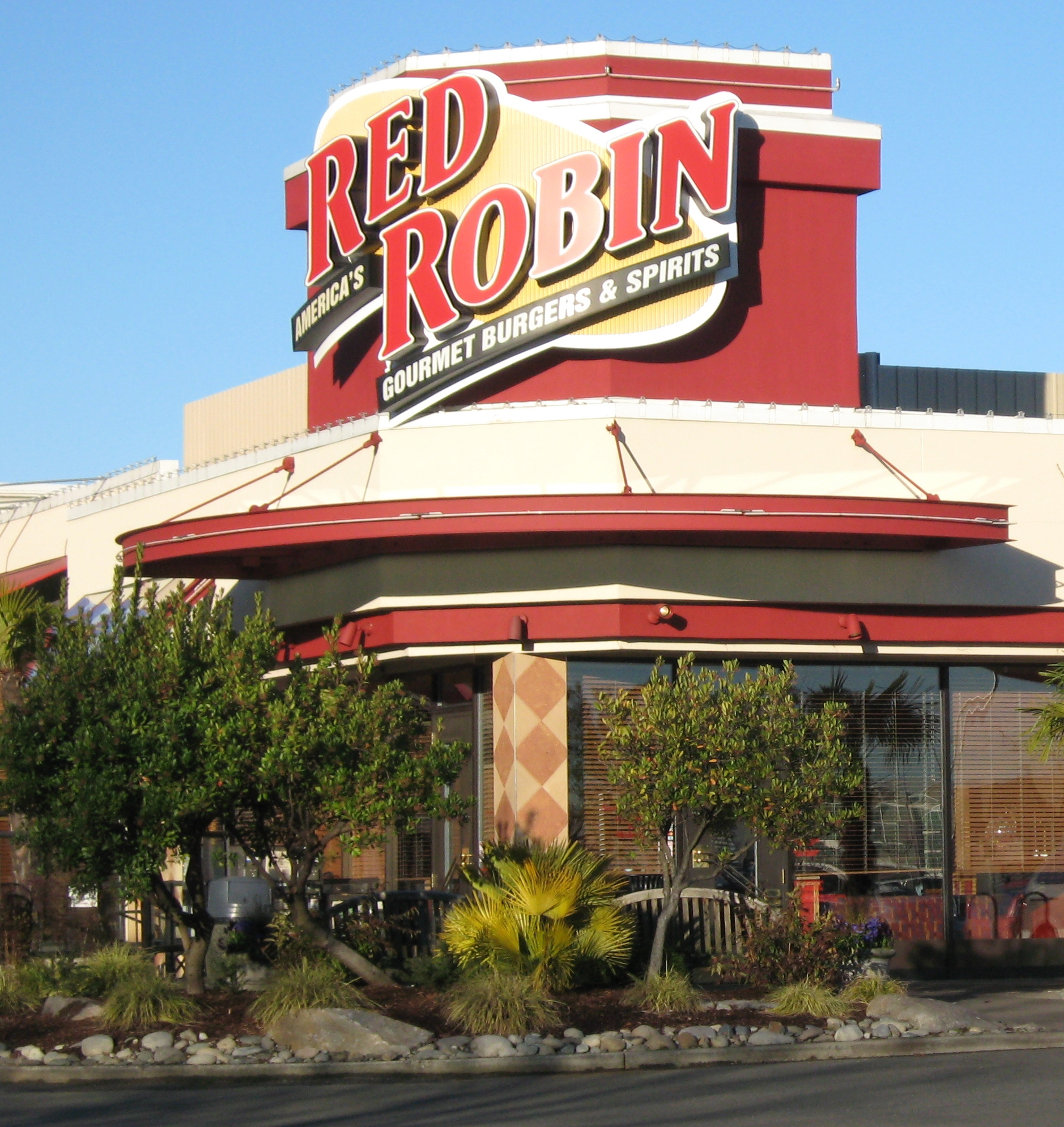 A Red Robin Restaurant in Tukwila, Washington